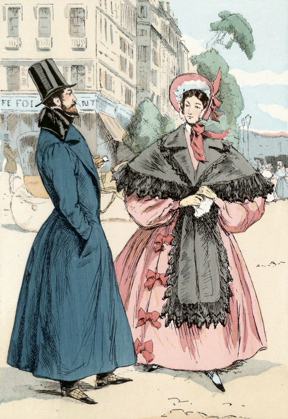 The man in this plate is wearing a militaire or demi-solde redingote, a long, low-waisted coat. He is also wearing a 'chapeau claque' or what contemporary Americans might call a 'top hat.' The woman is wearing a dress that is tightly cinched at the middle by a corset and accentuated on both sides by large, billowing sleeves and a very wide skirt. She is also wearing a fashionable Alsatian cap. Abstract sources: Boucher, François. 20,000 Years of Fashion. Harry N. Abrams, Inc, New York: Harry N. Abrams, 1967. Ruppert, Jacques. Le Costume Français. Paris : Flammarion,1996.